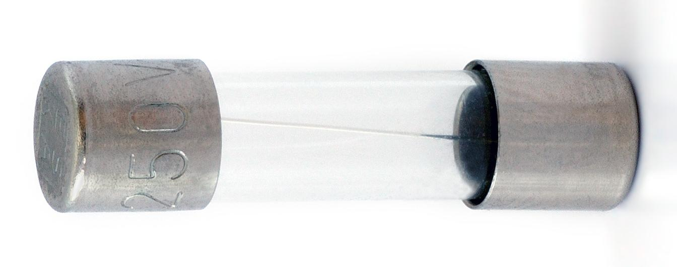 This image shows an electrical fuse.